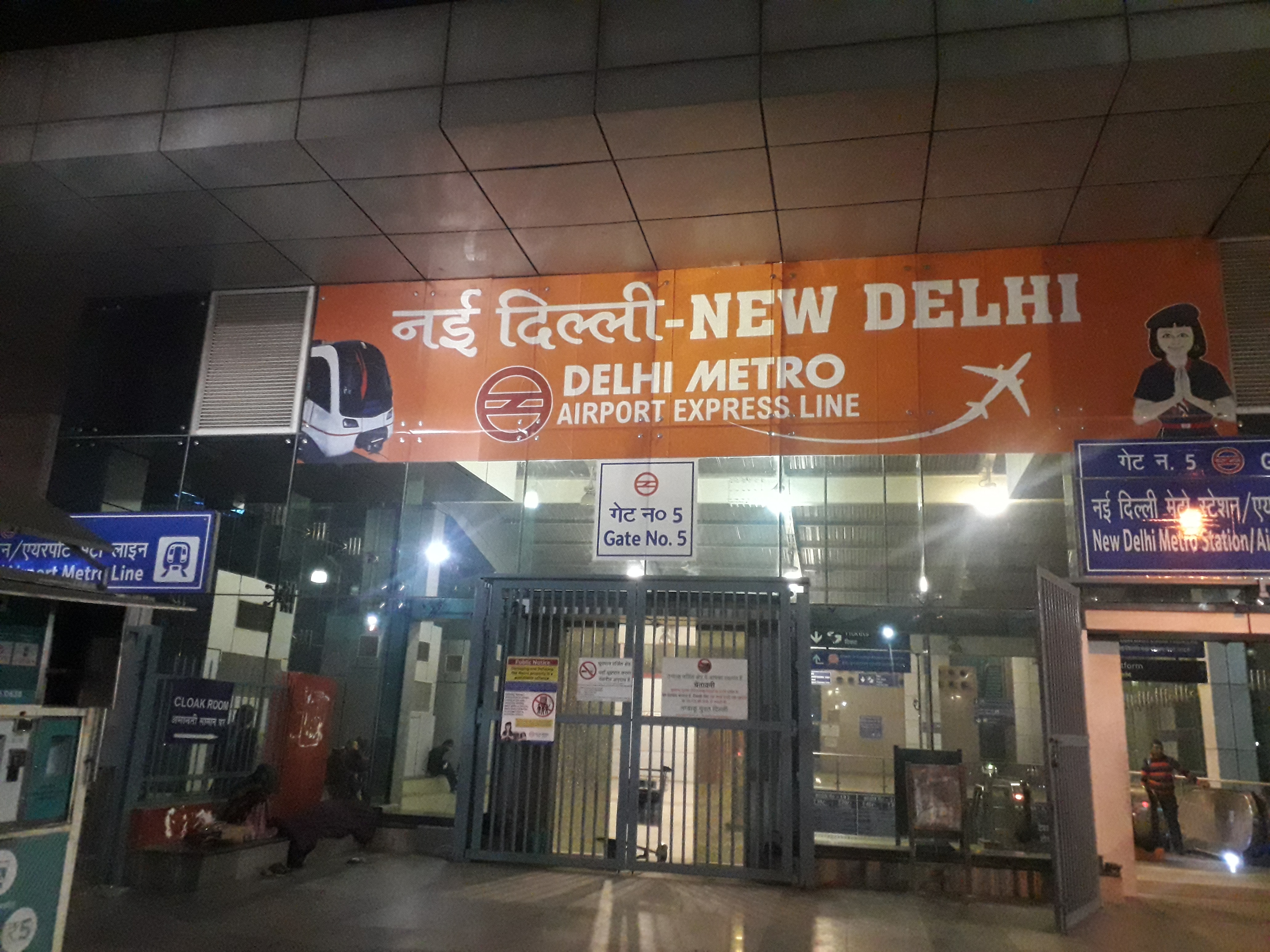 Delhi Airport Metro Express - Entrance